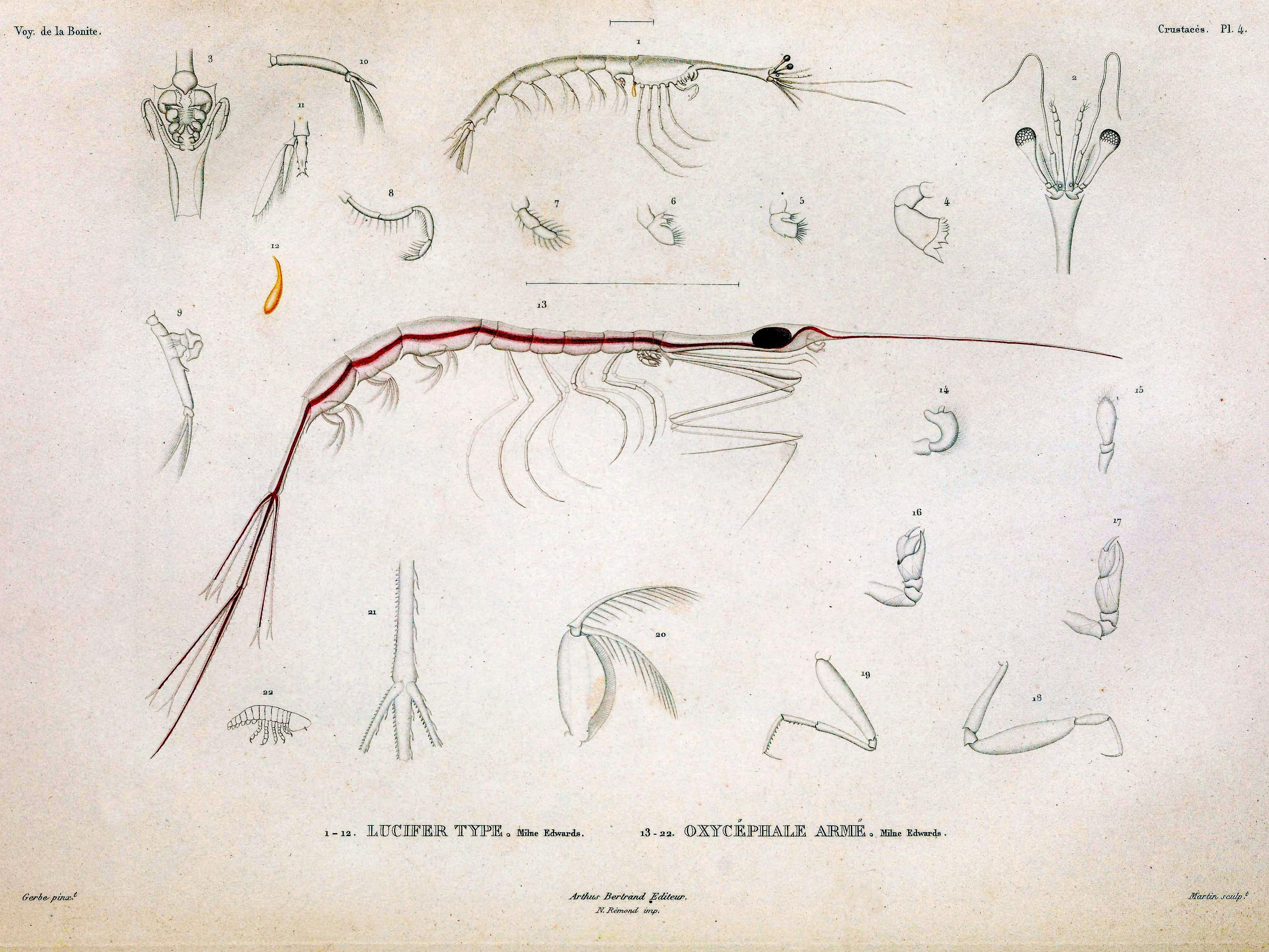 Lucifer typus Rhabdosoma armatum = Syn. OXYCÉPHALE ARMÉ. Oxycephalus armatus